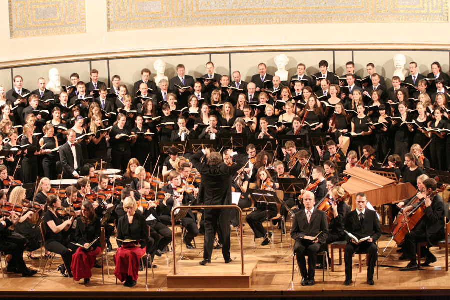 Choir and Orchestra of the Munich University of Applied Sciences at a concert in the Great Hall of the Ludwig Maximilian University, Munich